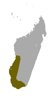 Lesser Hedgehog Tenrec (Echinops telfairi) range